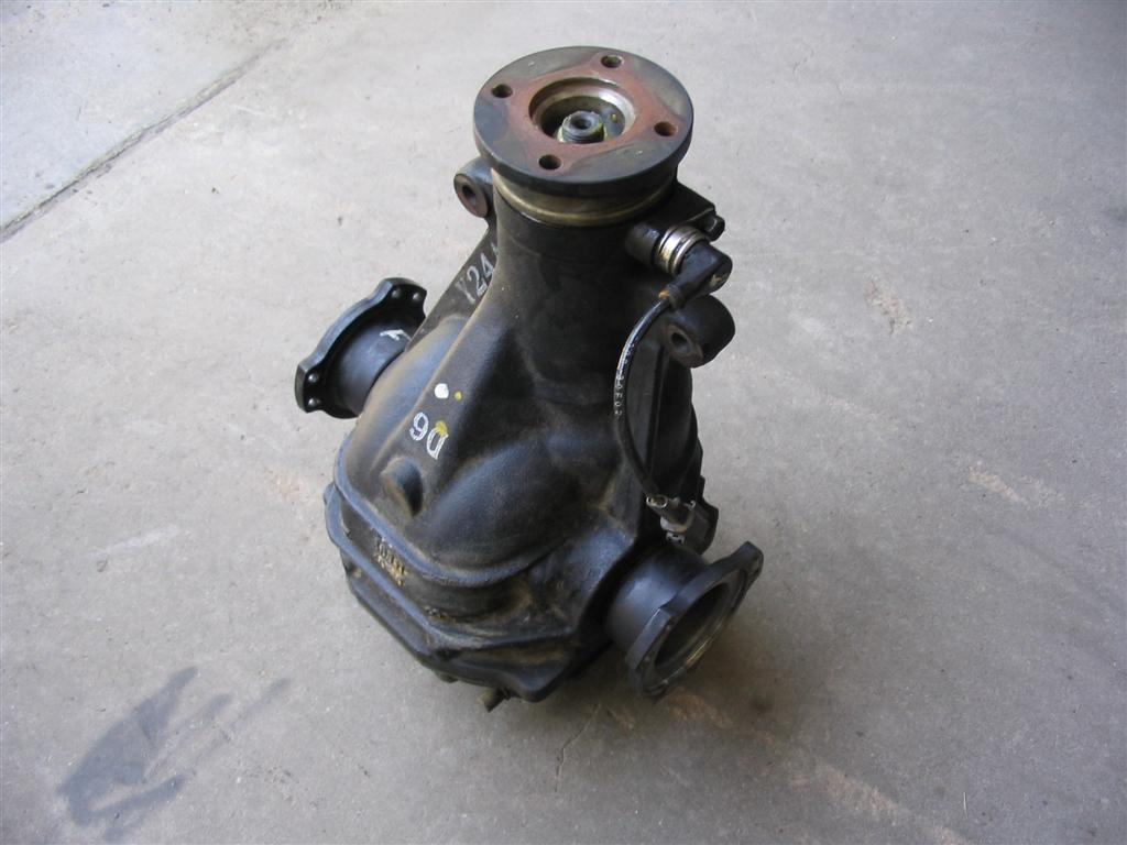 S13 HICAS differential, could be confused with an S15 differential, because the S15 differential has the speed sensor built into the differential.